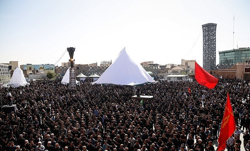 Ashura mourning in Imam Hossein Square, Tehran